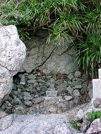 Yagura Baka, the tomb of Yagura Ufunushi, the grandfather of Shō Shishō, the first of the line of the First Shō Dynasty.